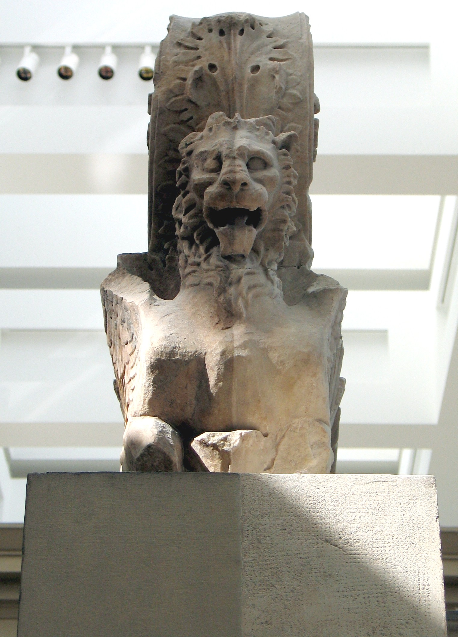 Ara Pacis (Rome): detail of the ongoing (2006) restoration of the sculptures.